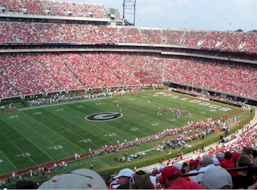 Sanford Stadium, stade universitaire des Georgia Bulldogs (USA). Source : wikipédia.en. photo enregistrée sous la mention suivante : This image shows Sanford Stadium at the University of Georgia in Athens, Georgia. This photograph was taken by User:pruddle (the uploader) in September 2005.